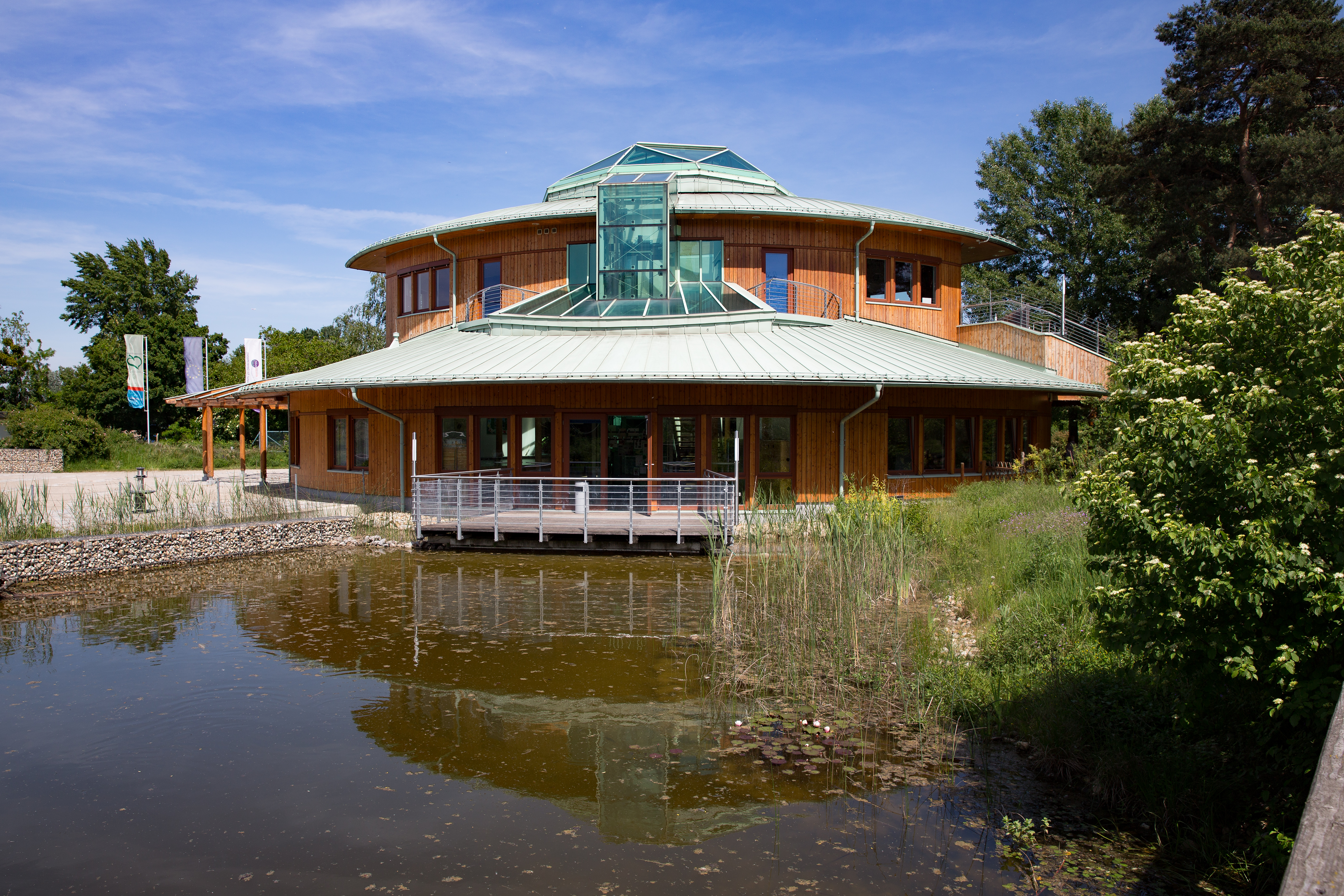 Nationalparkhaus (visitors center) at Lobau/Danube-Auen National Park, Vienna Austria). This file shows the National Park Donau-Auen in Austria. This media shows the nature reserve in Vienna with the ID 2.